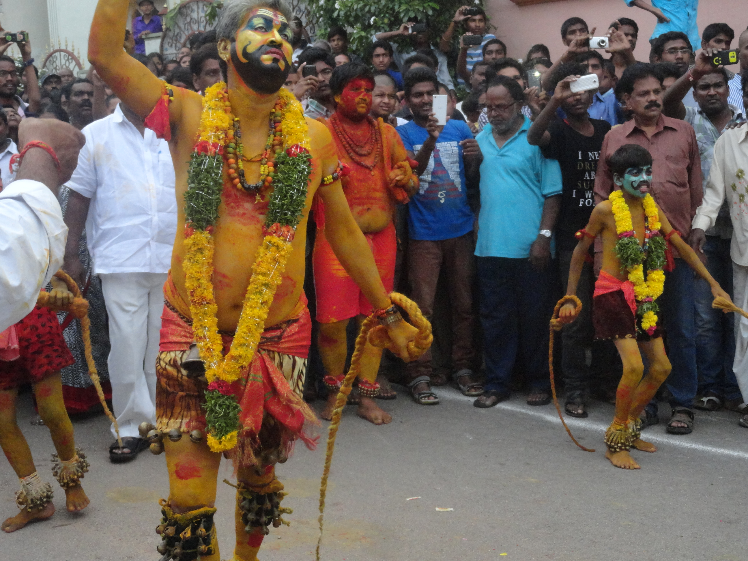 poturaaju in front of Goddess procession